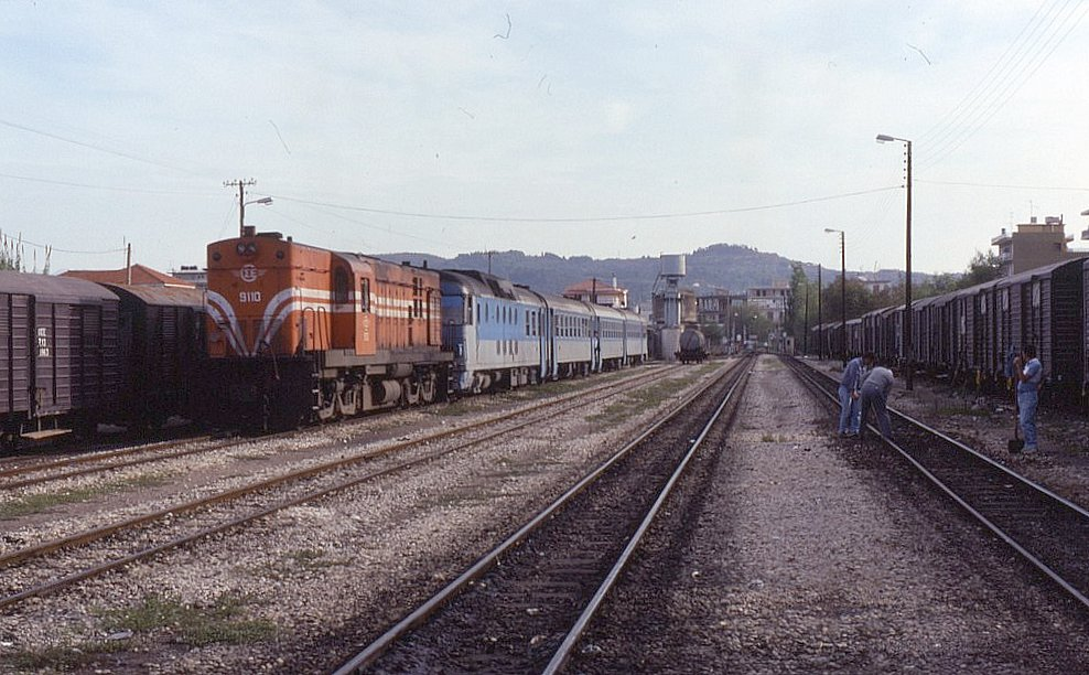 Seen pulling into Pyrgos on 2 November 1992 is A.9110 hauling a 4-car Ganz-Mavag set. These ALCO built locos were commonplace on both freights and passenger traffic on the Peloponese metre gauge system. Altogether 12 examples were built.